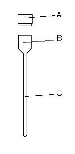 diagram of a capillary tube used in some real time PCR machine